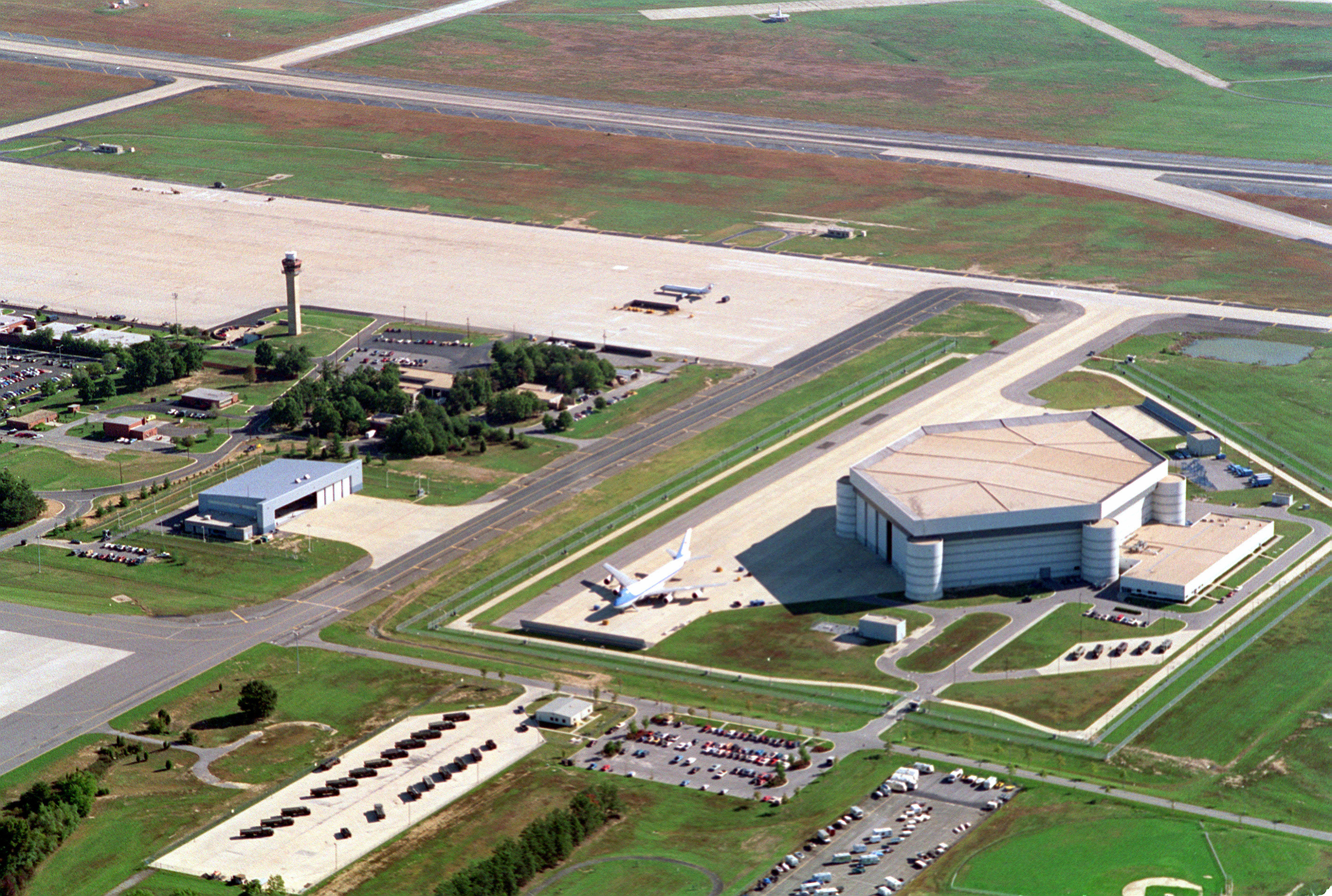 An aerial view of the Air Force One hangar facility at the base. One of two VC-25A presidential transport aircraft operated by the 89th Airlift Wing is parked outside the hangar.